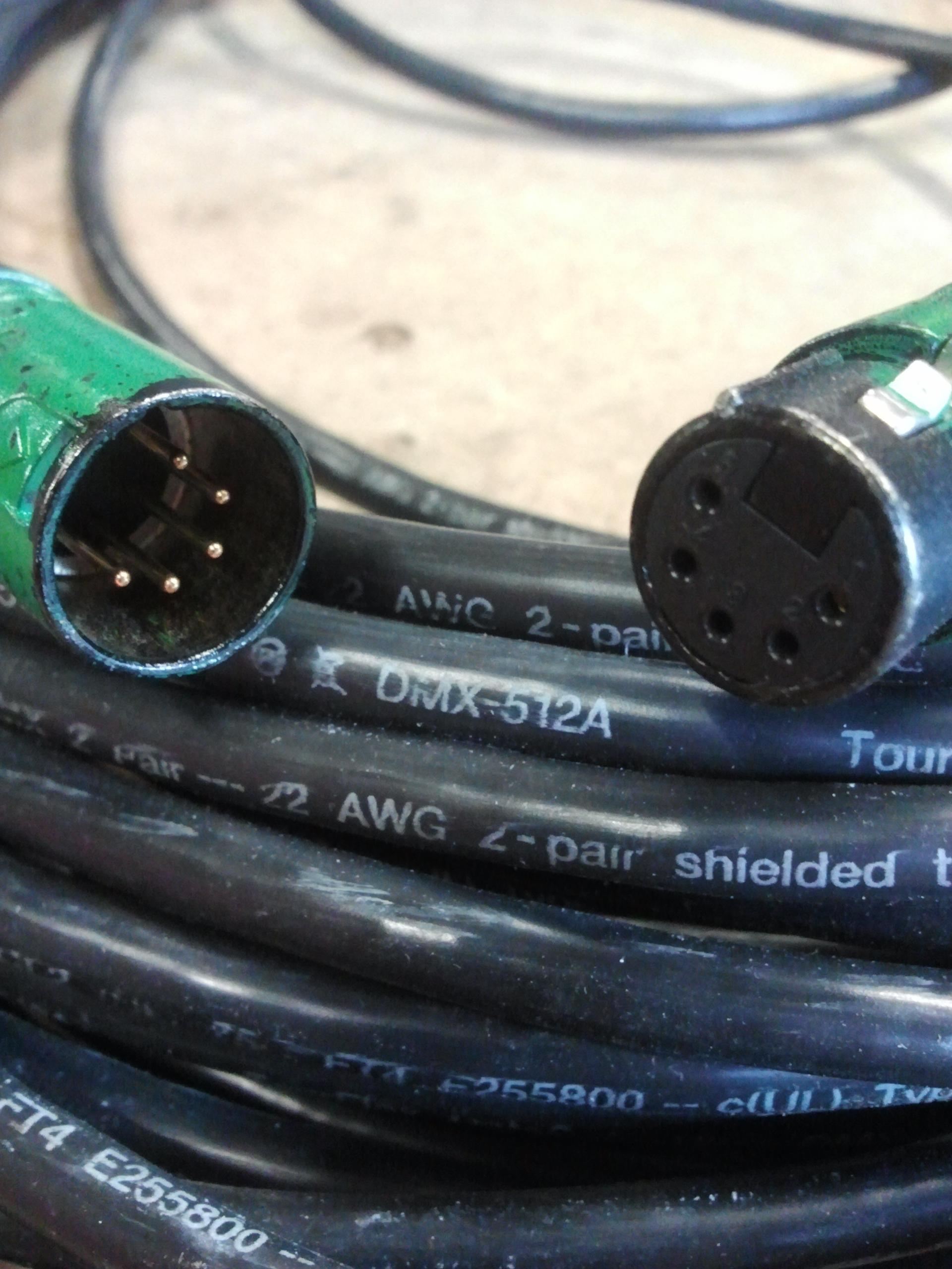 DMX Cable